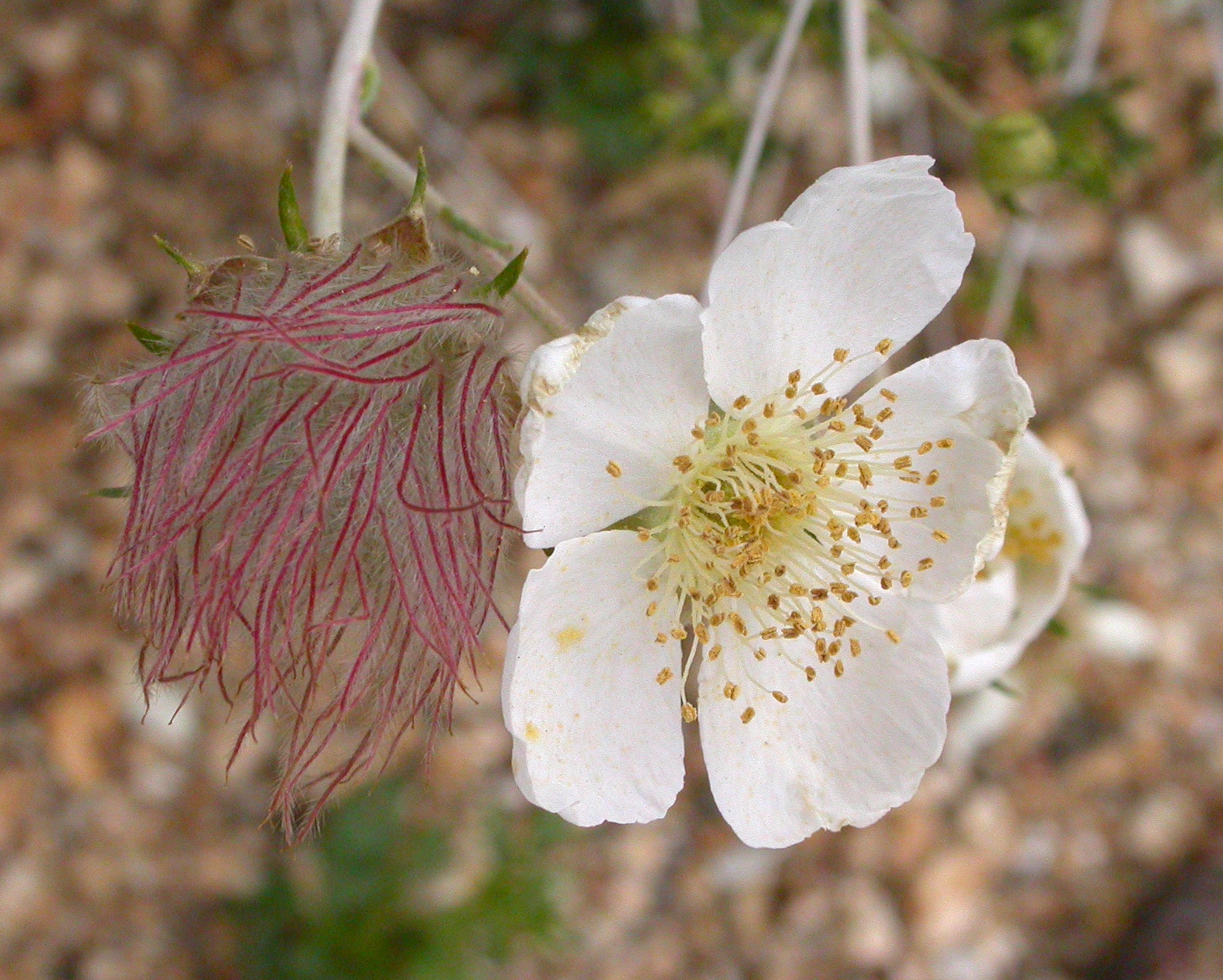 Fallugia paradoxa fruits and flower